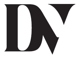 This is a compatibility logo for DV video recording format.